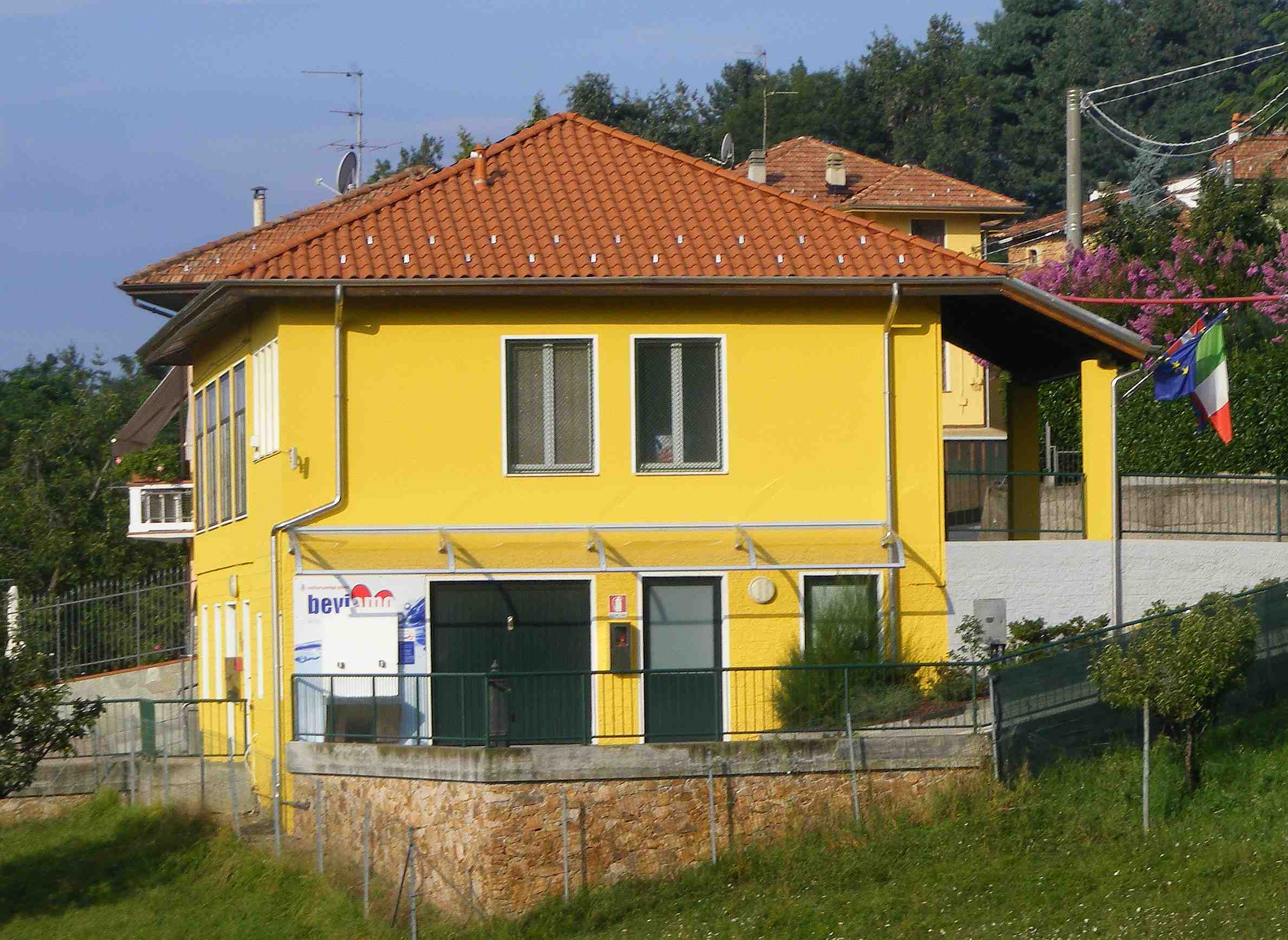 Vallanzengo (BI, Italy): town hall